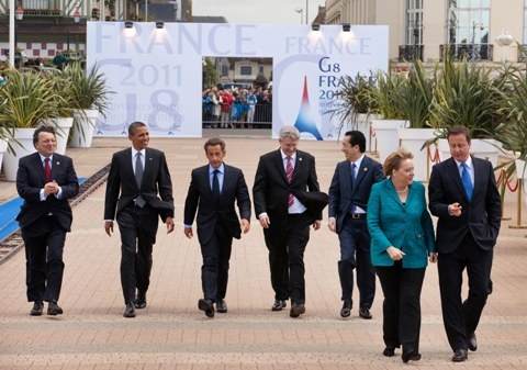 World leaders walk to the first working session at the G8 summit in Deauville, France, May 26, 2011. Pictured, from left are: European Commission President Jose Manuel Barroso; United States President Barack Obama; French President Nicolas Sarkozy; Canadian Prime Minister Stephen Harper; Japanese Prime Minister Naoto Kan; German Chancellor Angela Merkel; and British Prime Minister David Cameron. May 26, 2011. (Official White House Photo by Official White House Photo by Lawrence Jackson)